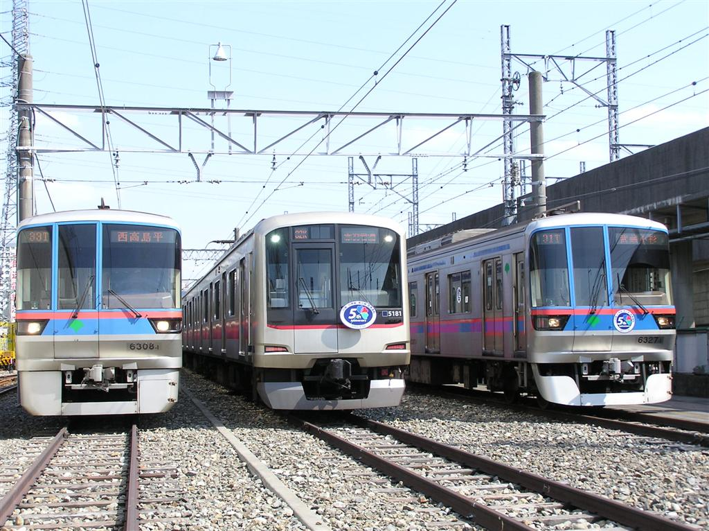 Tokyo Toei Subway Shimura Depot